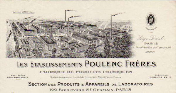 Letterhead of the Établissements Poulenc frères, a French pharmaceutical company